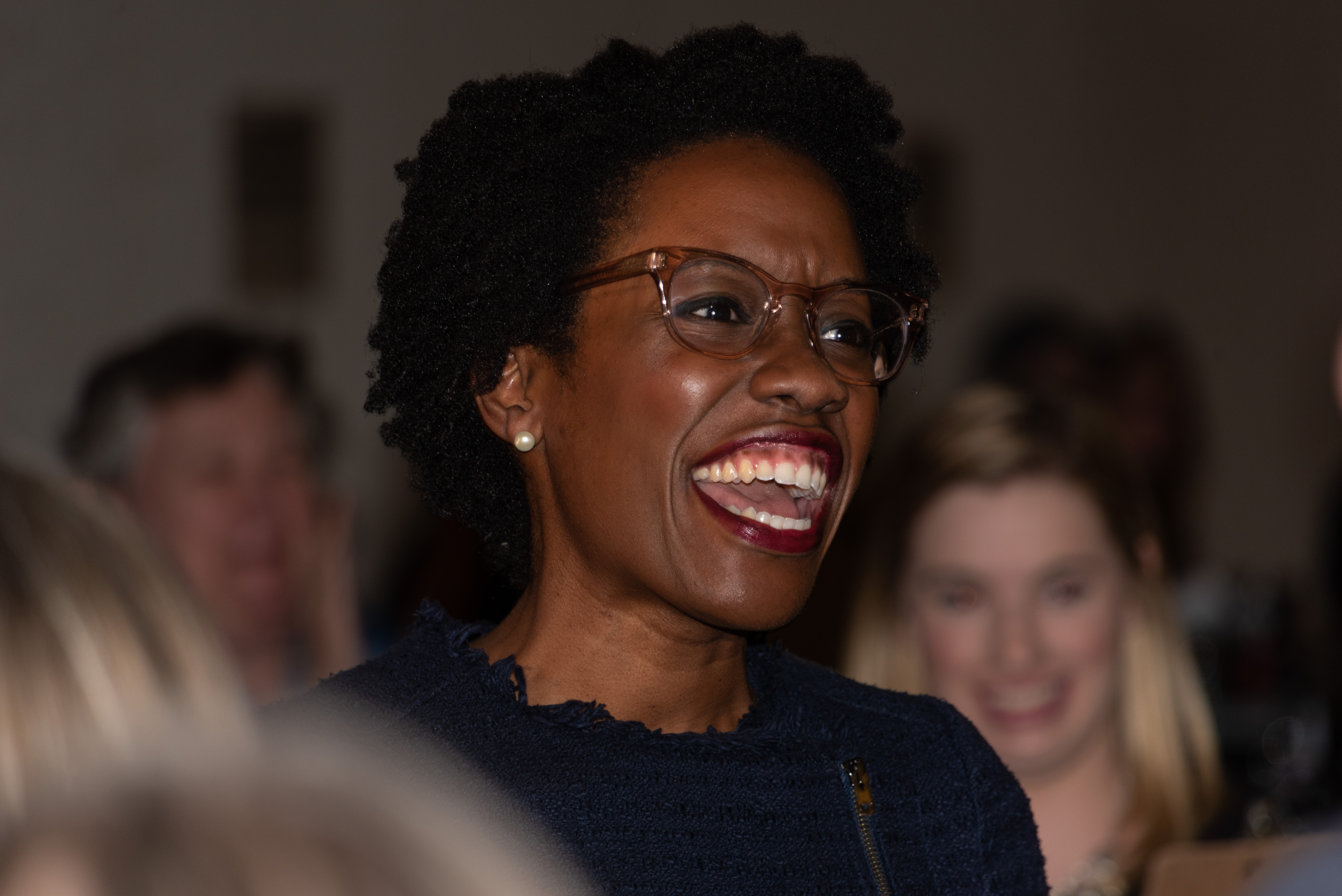 Congresswoman-elect Lauren Underwood on election night of 2018.